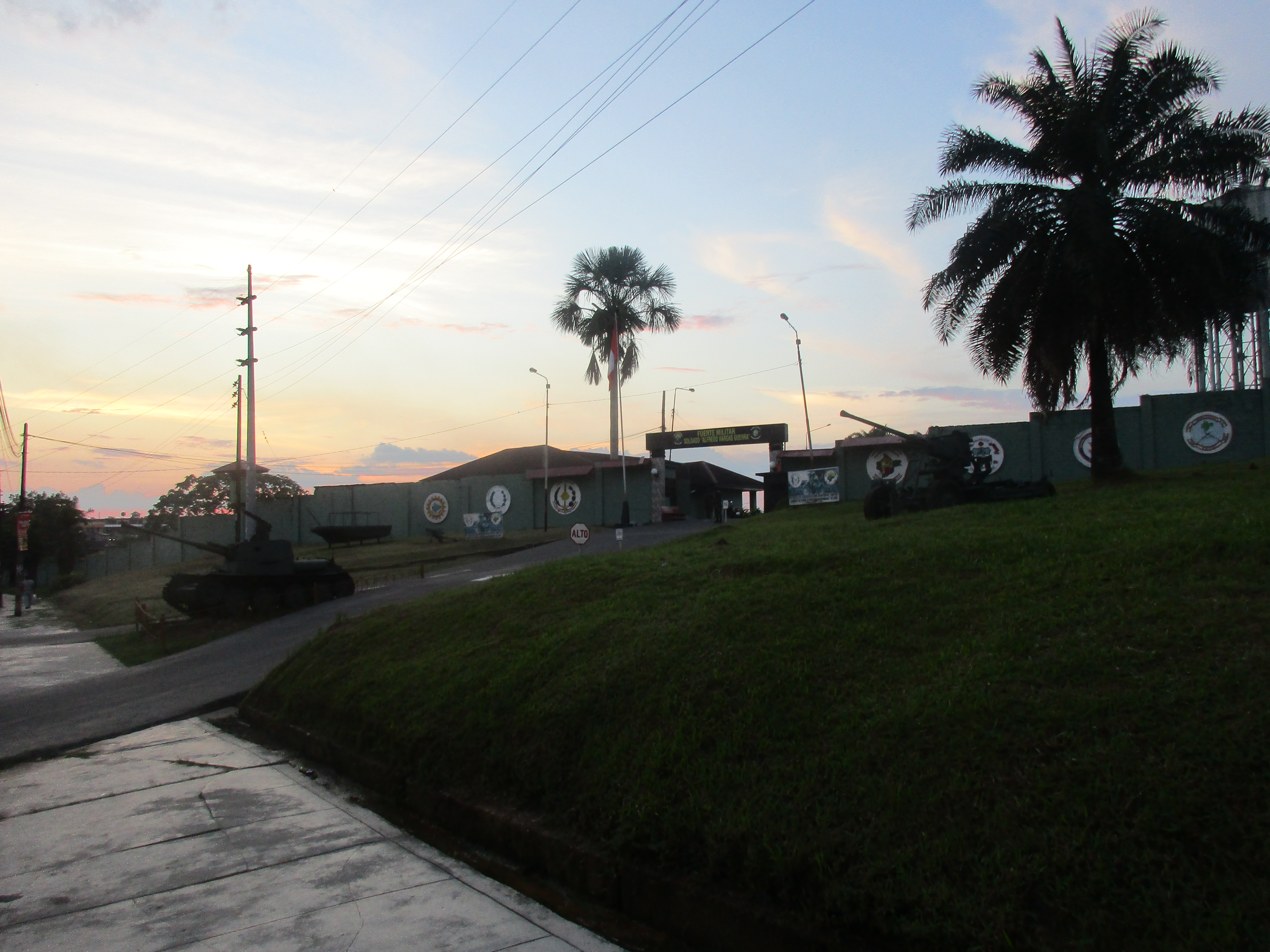 Cuartel Alfredo Vargas Guerra en Cerro Palmeras, Iquitos